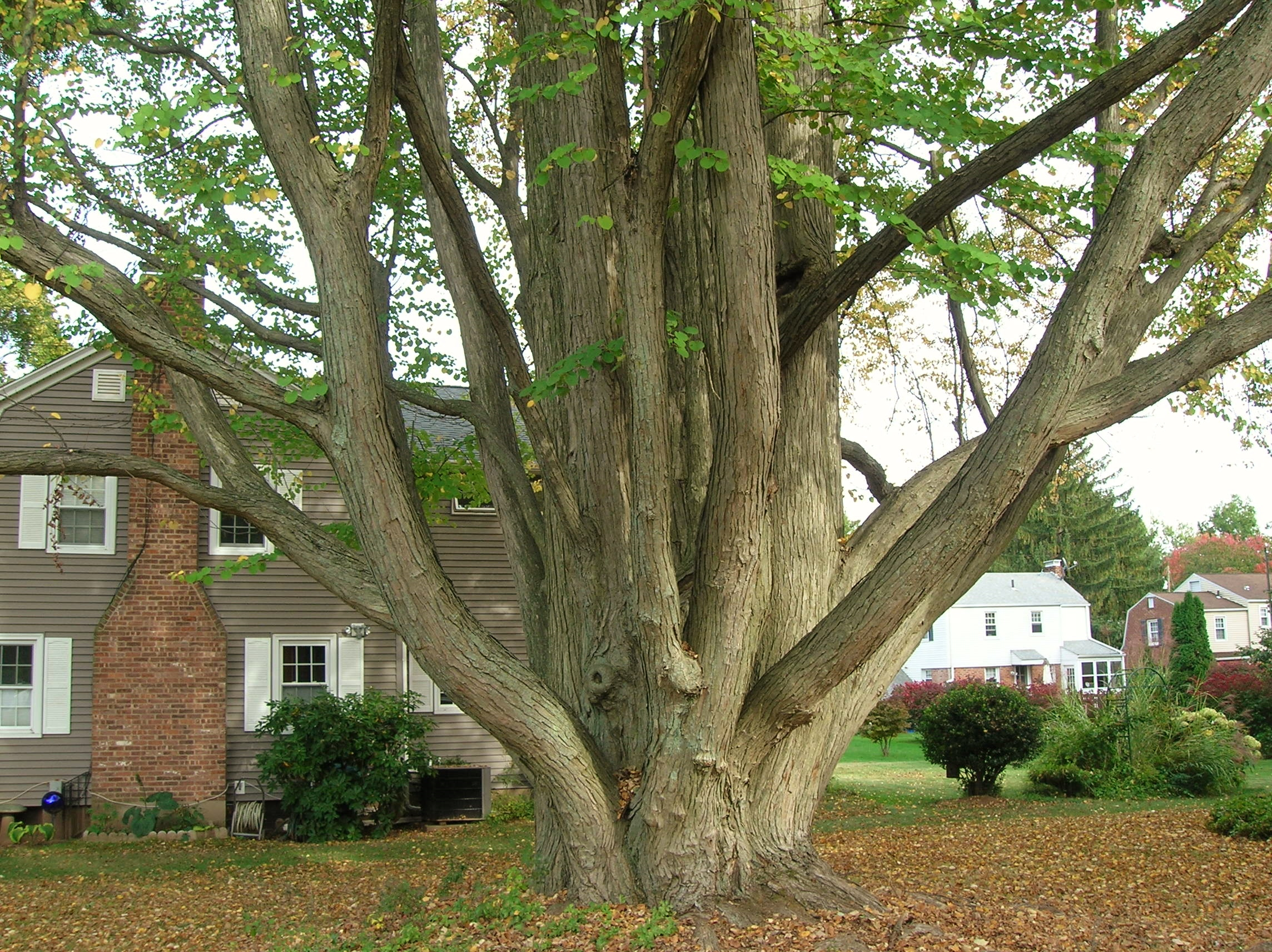 Photo of Katsura tree located in Newington, CT. Photo taken 10/3/2013.